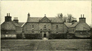 Kinmundy House pictured during the 1800s before roof was removed and it became derelict